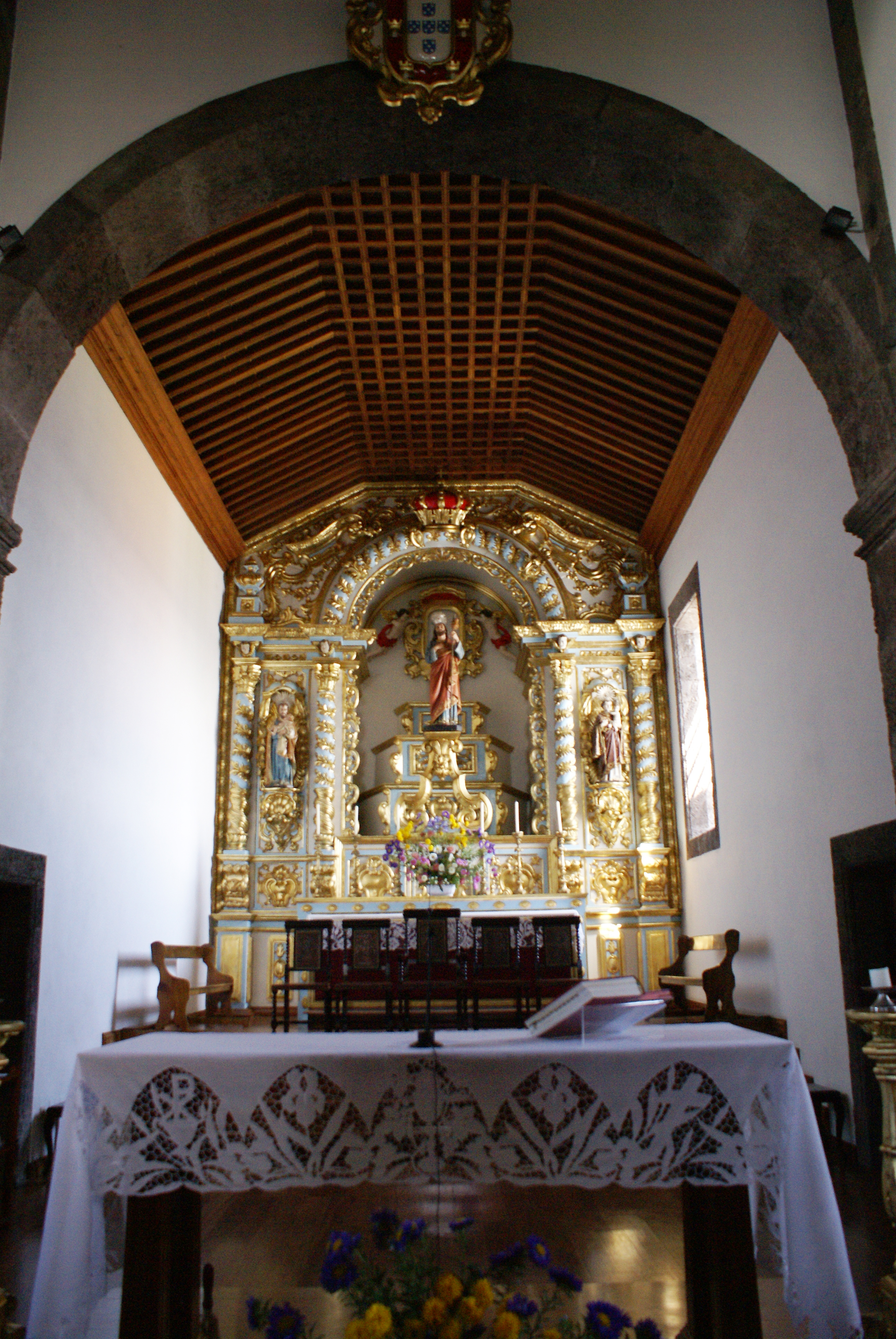 Main altar and nave of the Church of São Tiago Maior, Ribeira Seca, Calheta, São Jorge (Azores), Portugal